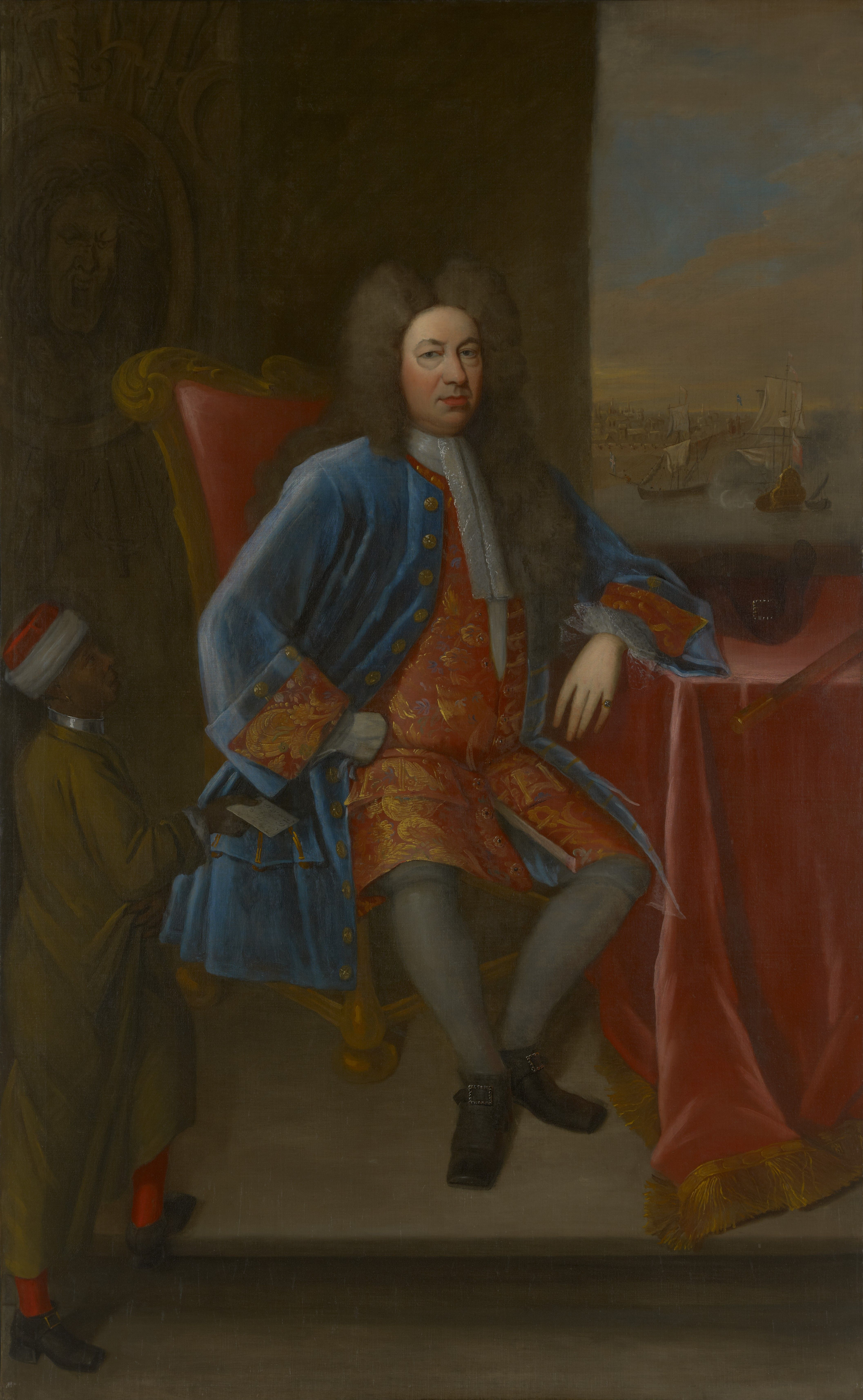 Portrait of Elihu Yale (1649-1721)